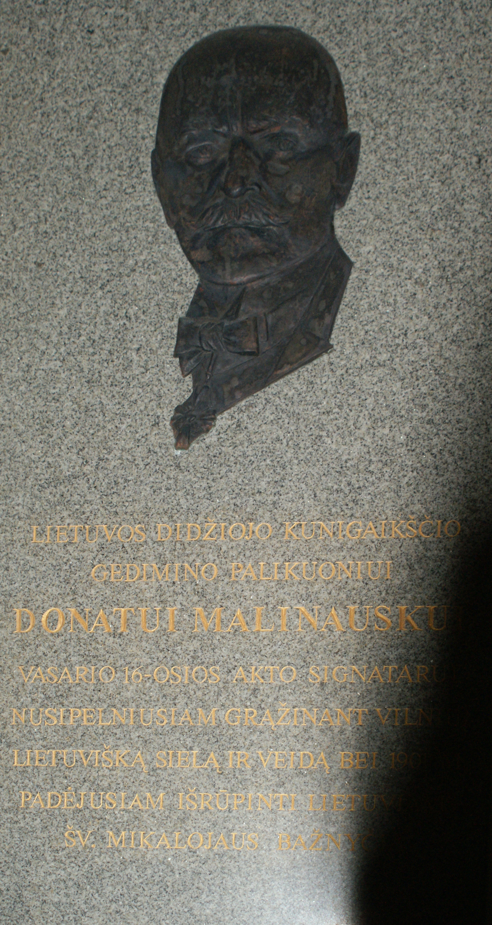 Church of St. Nicholas in Vilnius